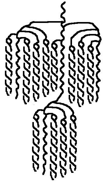 Amylopectin chains arrangement example